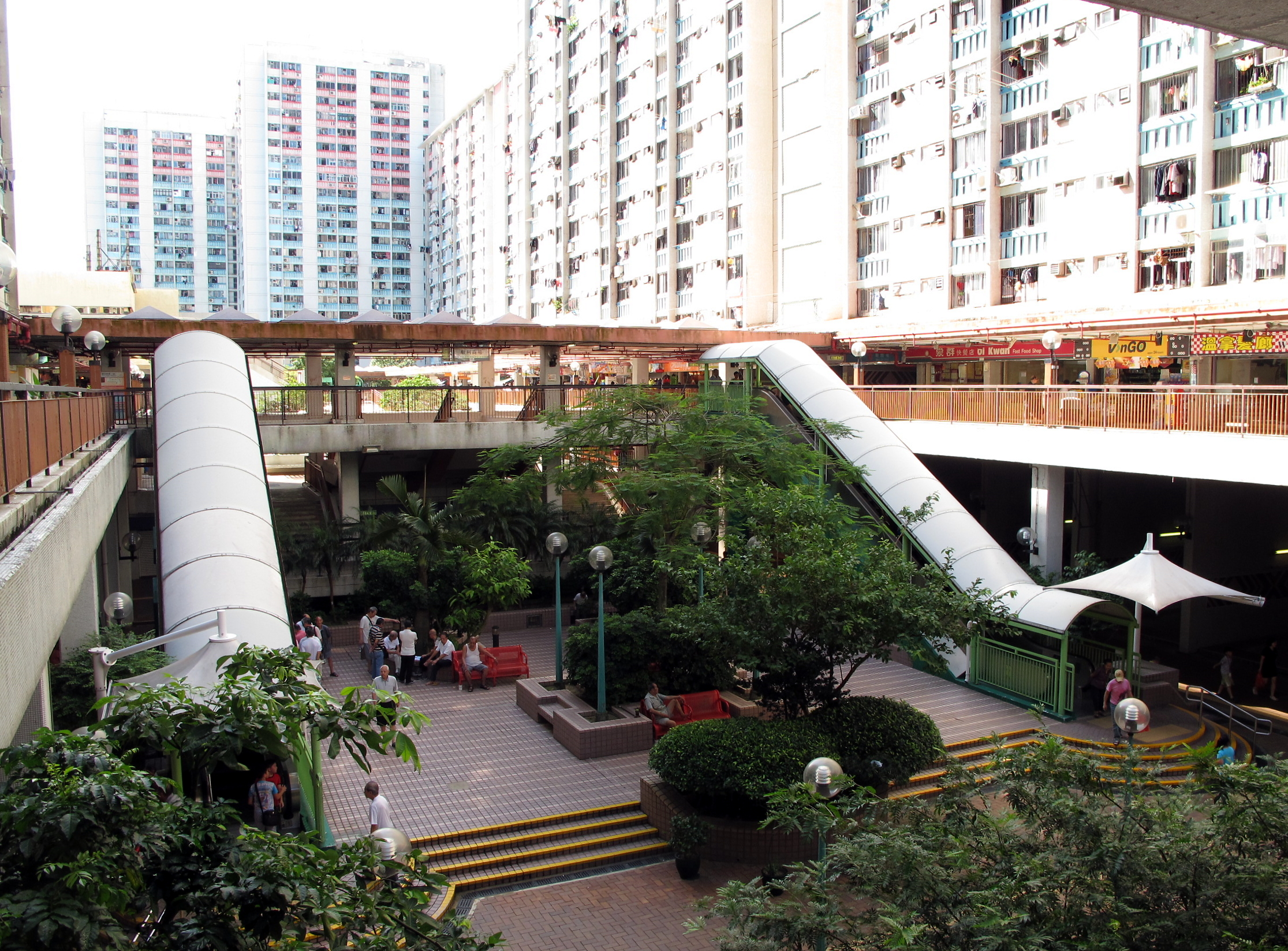 Shun Lee Estate Shopping Arcade